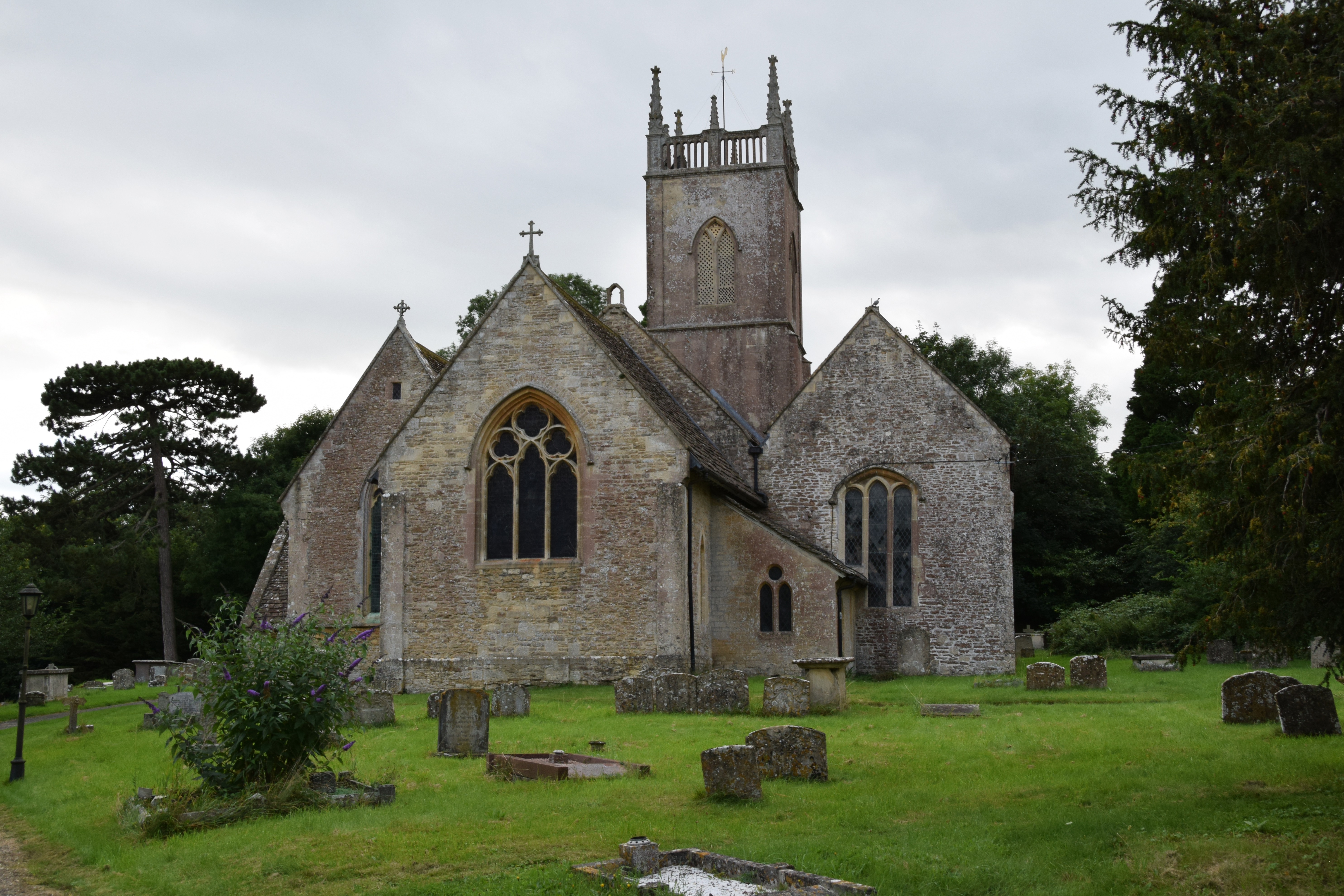 Church Of St Michael Wikidata has entry Q17545966 with data related to this item.